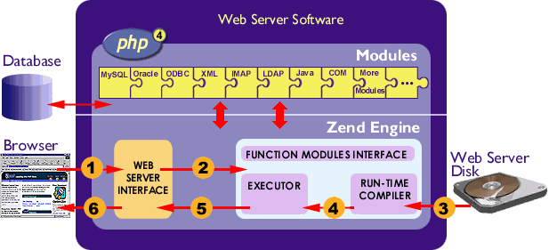 Zend internal structure